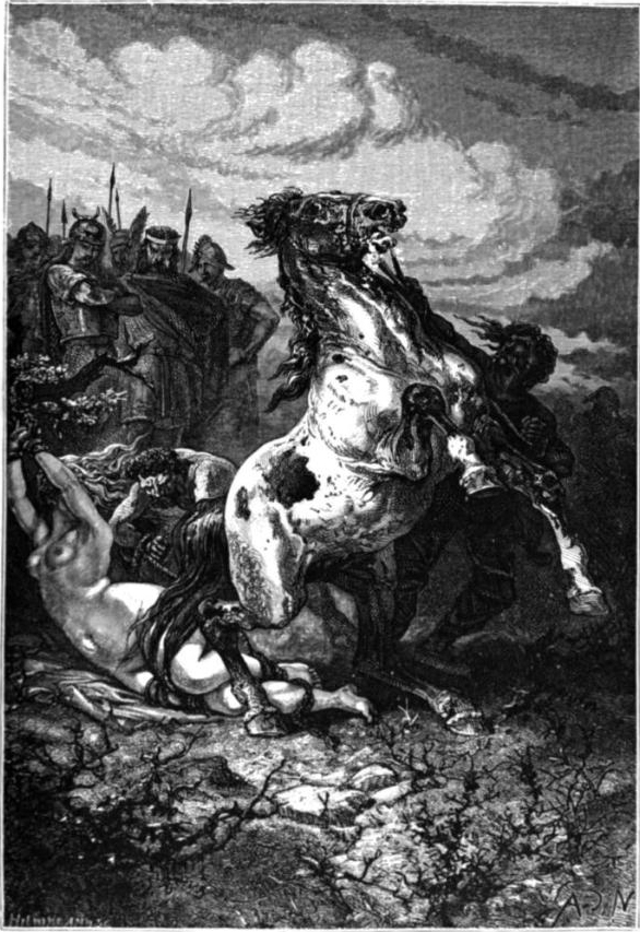 The Execution of Brunehaut